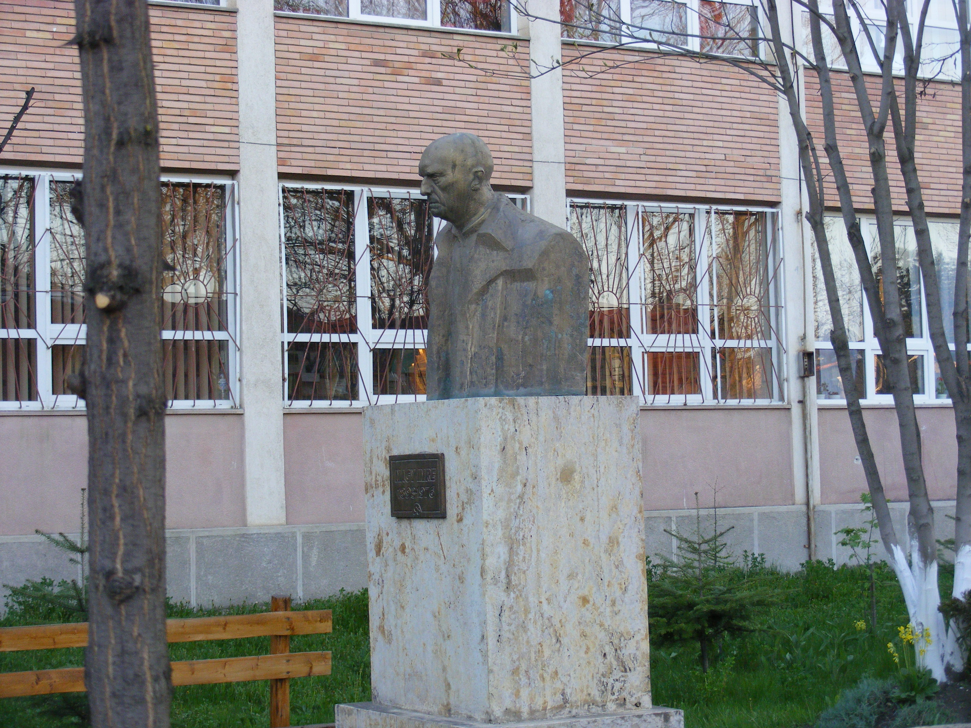 A statue about Nagy Imre pictor in Csíkszereda.